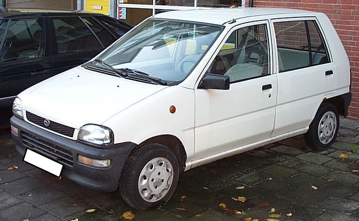 1992 Subaru Mini Jumbo (European market name for third generation Subaru Rex)